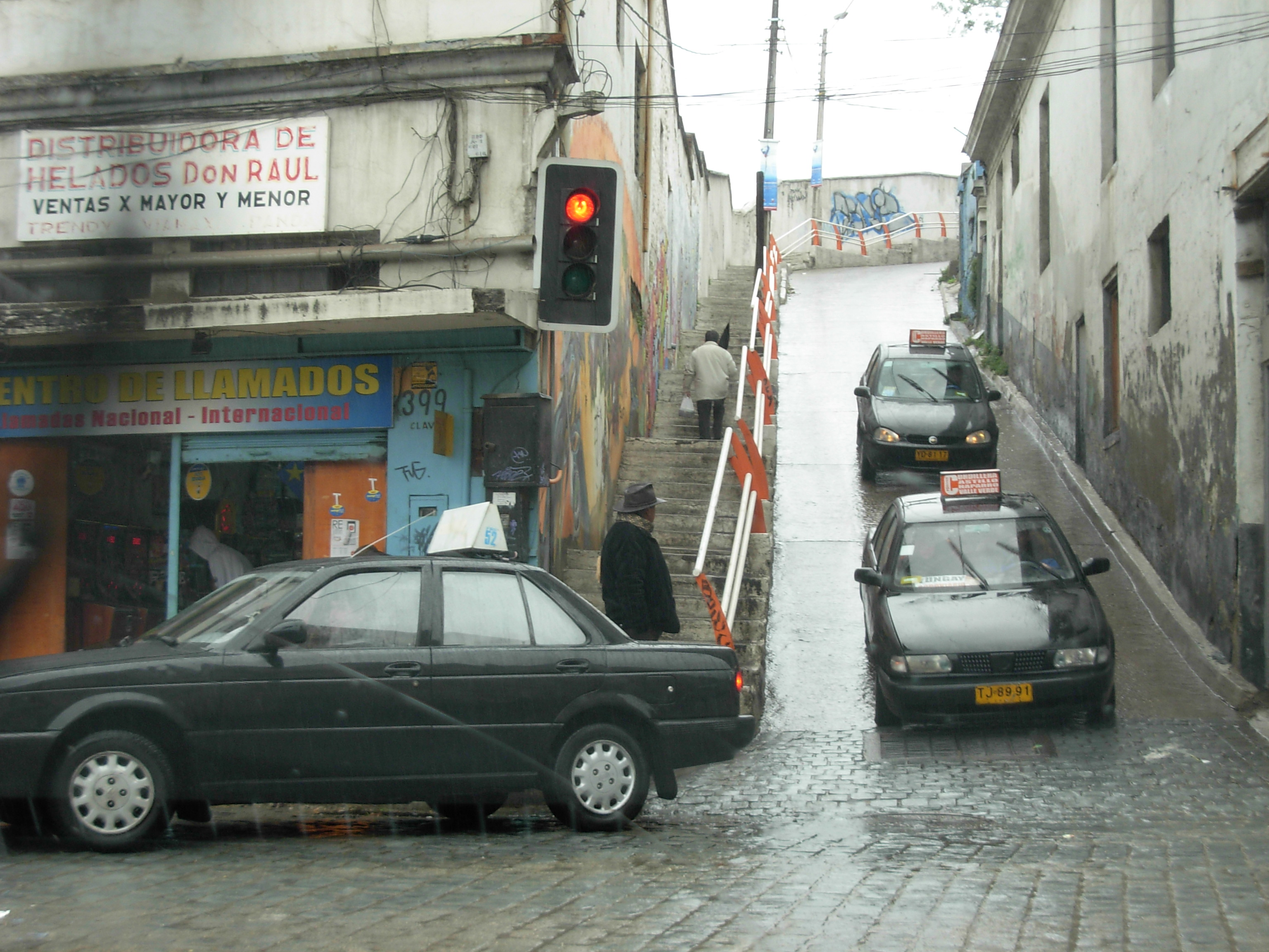 Valparaiso, Chile old town, taxis coming to town square